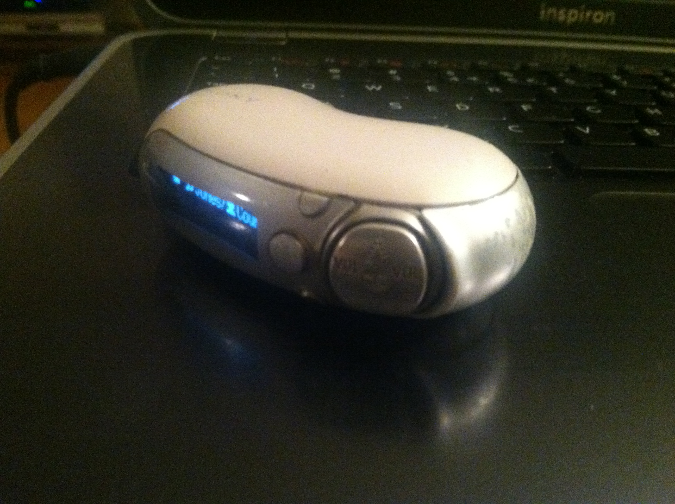 Sony Walkman Bean Limited Series